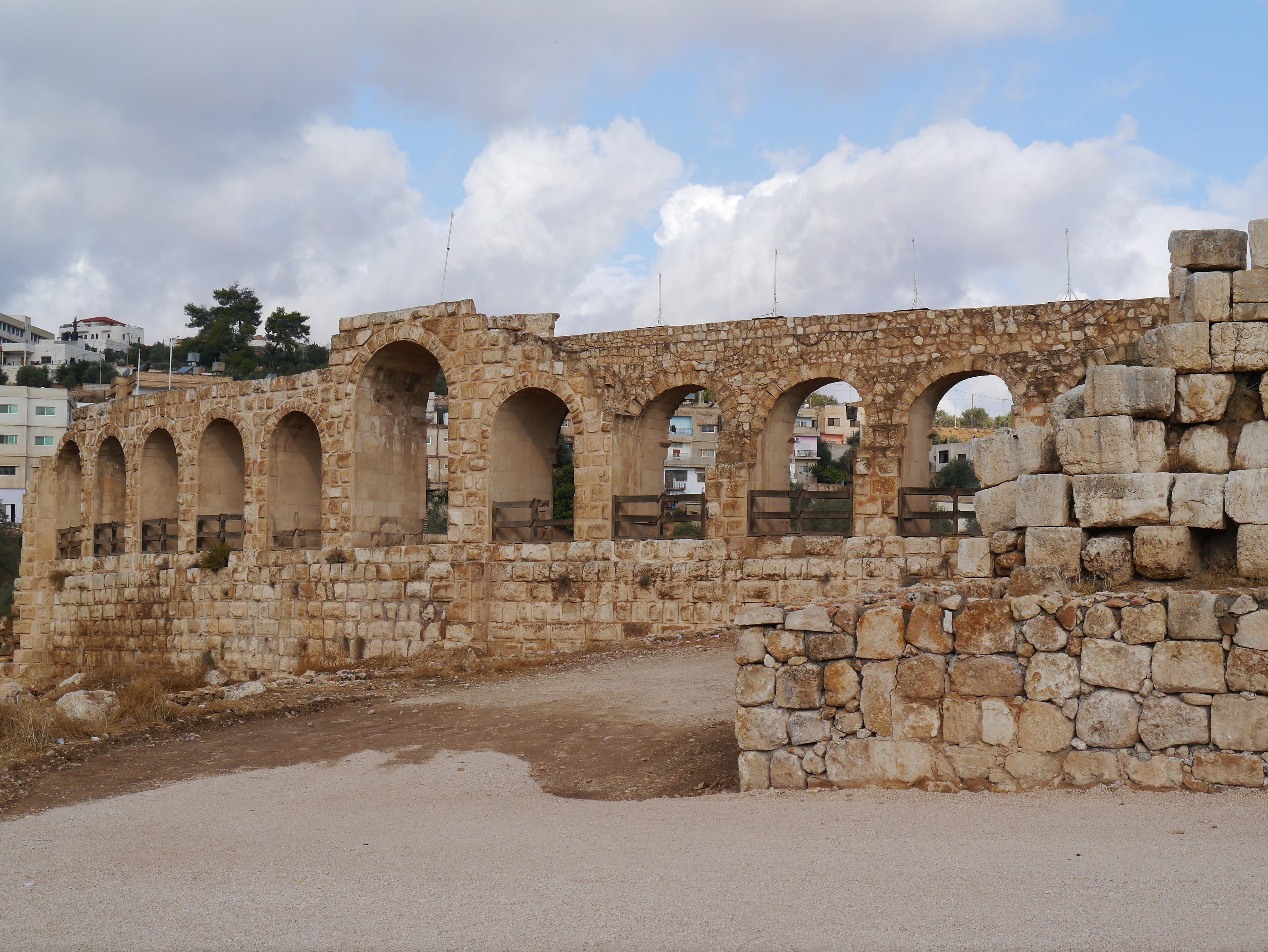 Hippodrome, Gerasa/Jerash, Northwestern Jordan